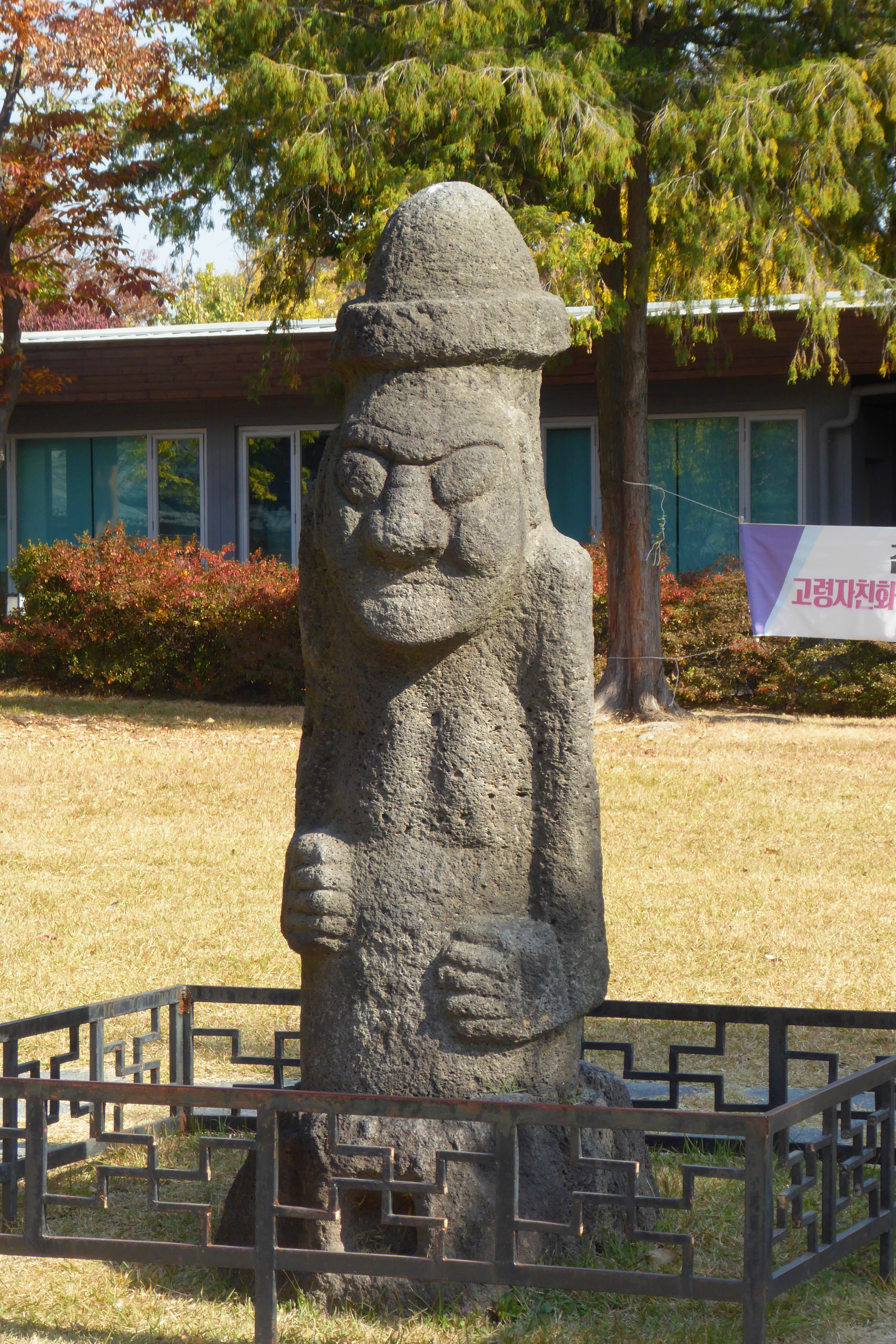 A dol-hareubang from Jeju Island, either 19th century or earlier in origin. On display outside the National Folk Museum of Korea in Seoul.